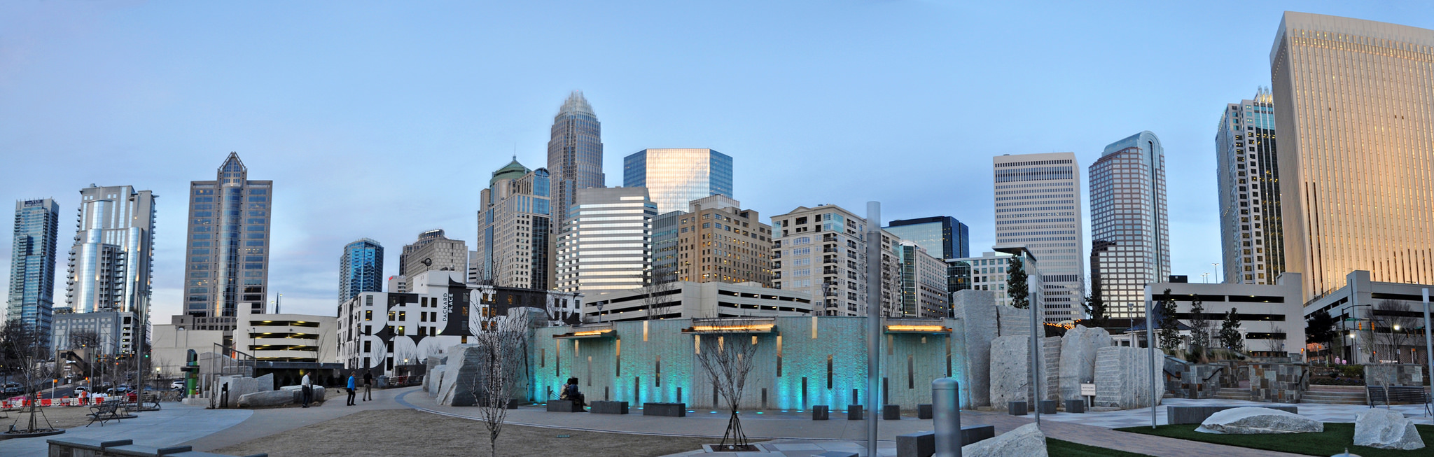 Romare Bearden Park